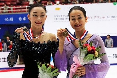 Mao Asada (1st) and Rika Hongo(2nd) at the 2015 Cup of China.